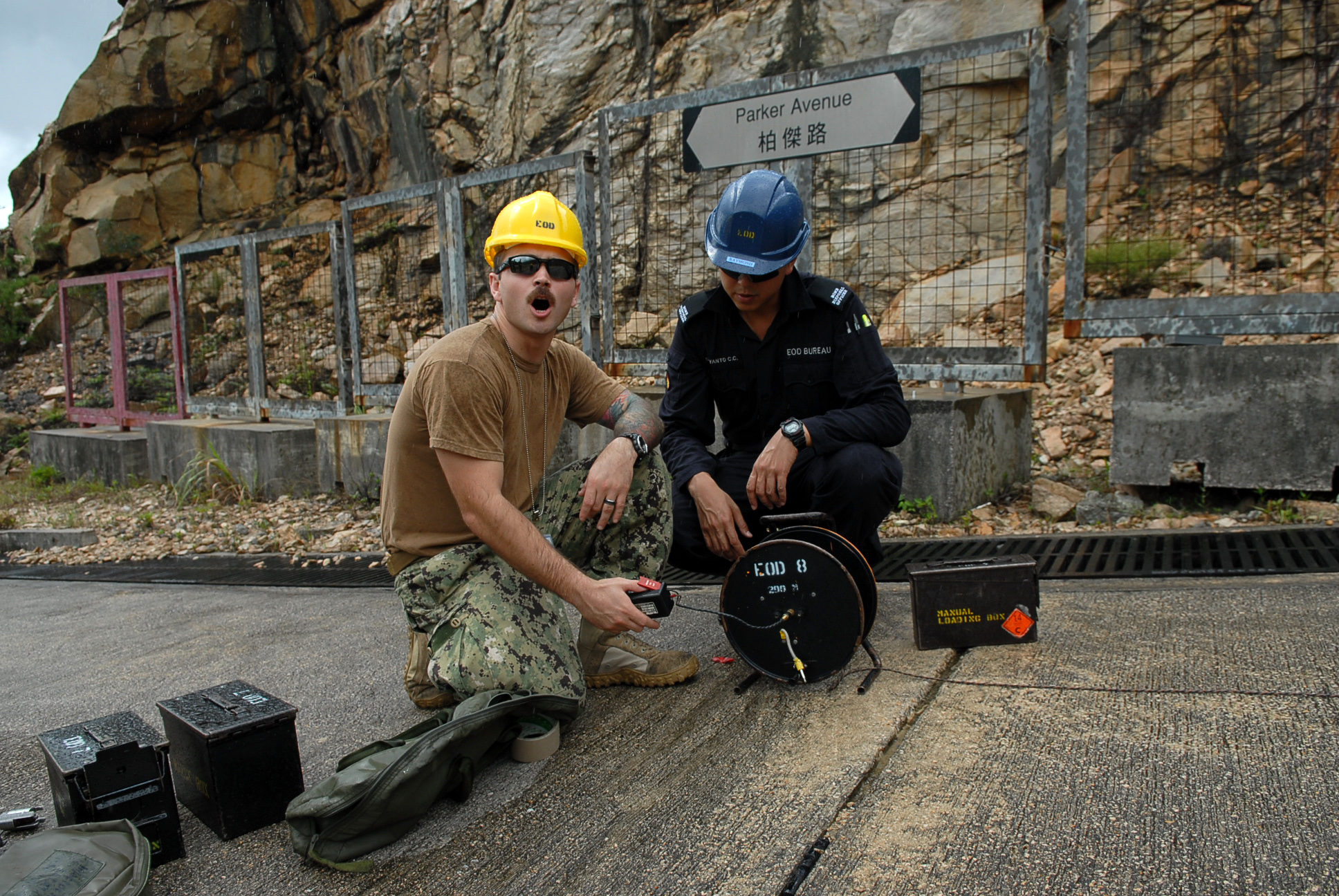 Navy Diver 1st Class Ryan Conley, assigned to Explosive Ordnance Disposal Mobile Unit Five, Platoon 503, participates in a subject matter expert exchange with members from the Hong Kong Police Force, Explosive Ordnance Disposal Bureau while in Hong Kong, July 13, 2012. Hong Kong is the second port visit for the Nimitz-class aircraft carrier USS George Washington (CVN 73). George Washington and its embarked air wing, Carrier Air Wing 5, provide a combat-ready force that will protect and defend the collective maritime interests of the U.S. and its allies and partners in the Asia-Pacific region.